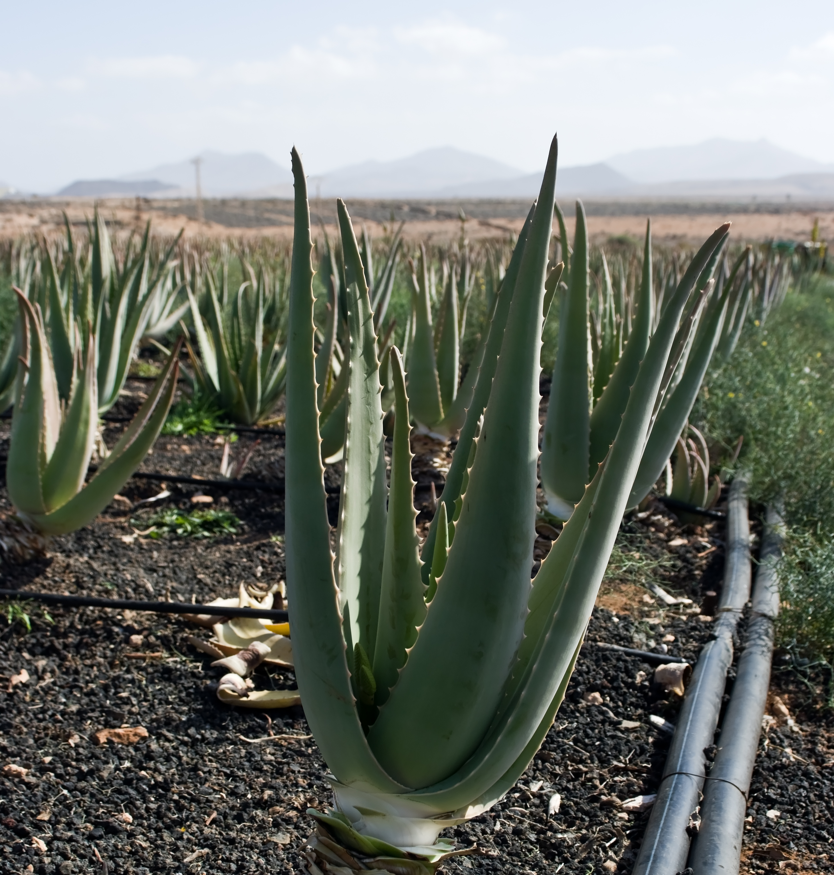 Aloe vera plantation - Fuertaventura, Canary Islands, Spain.